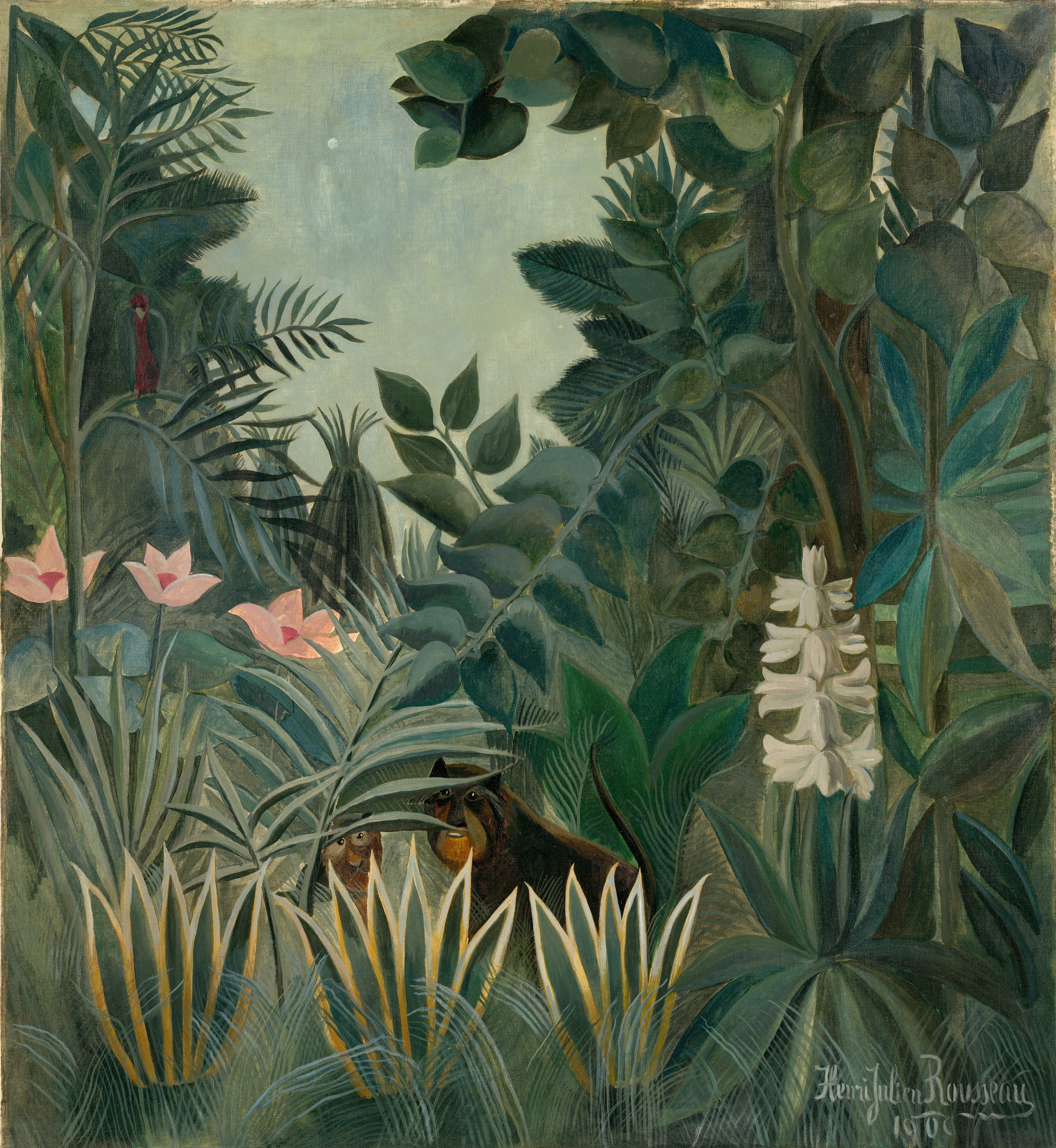 The Equatorial Jungle (1909, Henri Rousseau) located inside the National Gallery of Art's West Building in Washington, D.C.